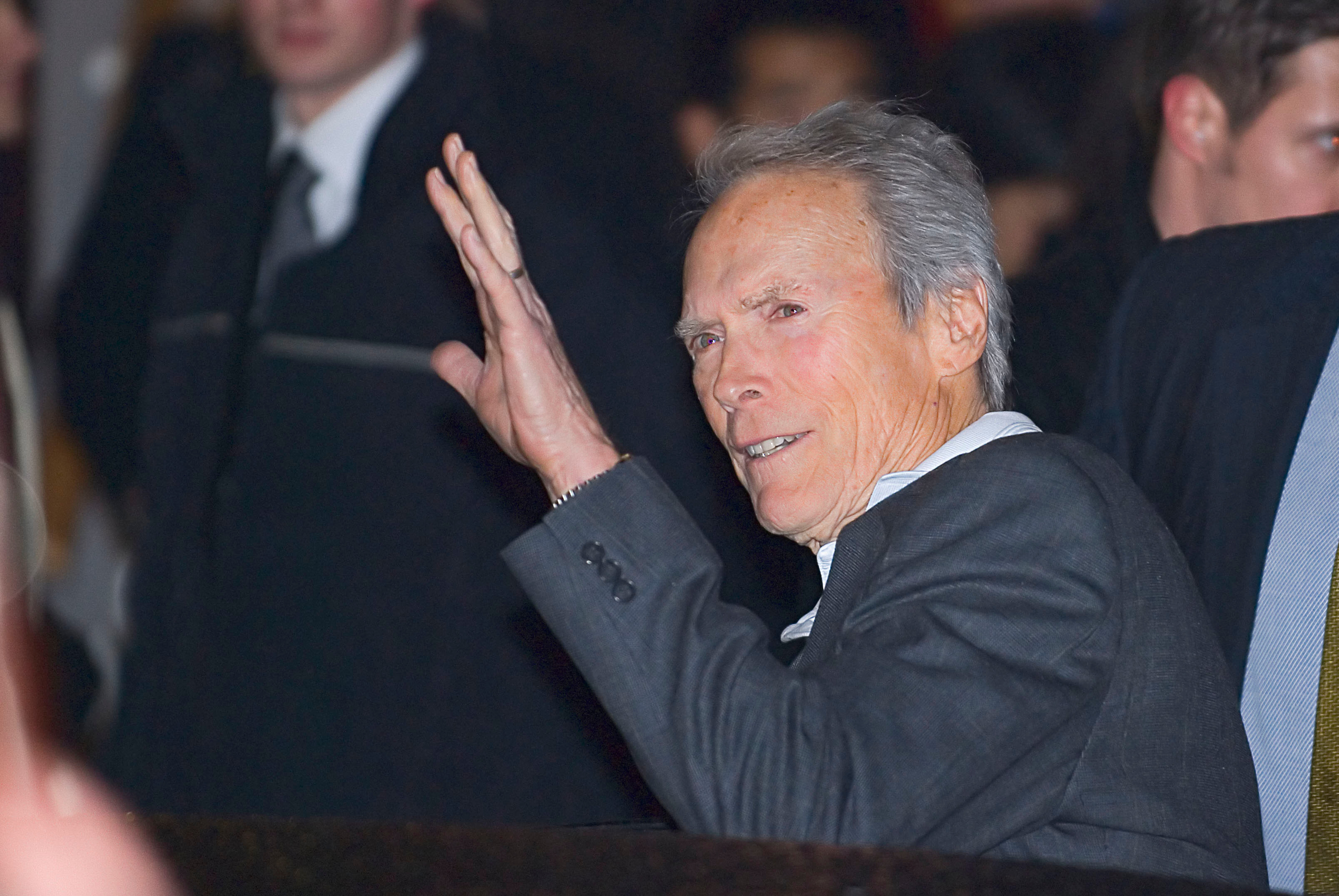 Clint Eastwood leaving the press conference for "Letters from Iwo Jima", Hyatt Hotel, Potsdamer Platz, Berlin